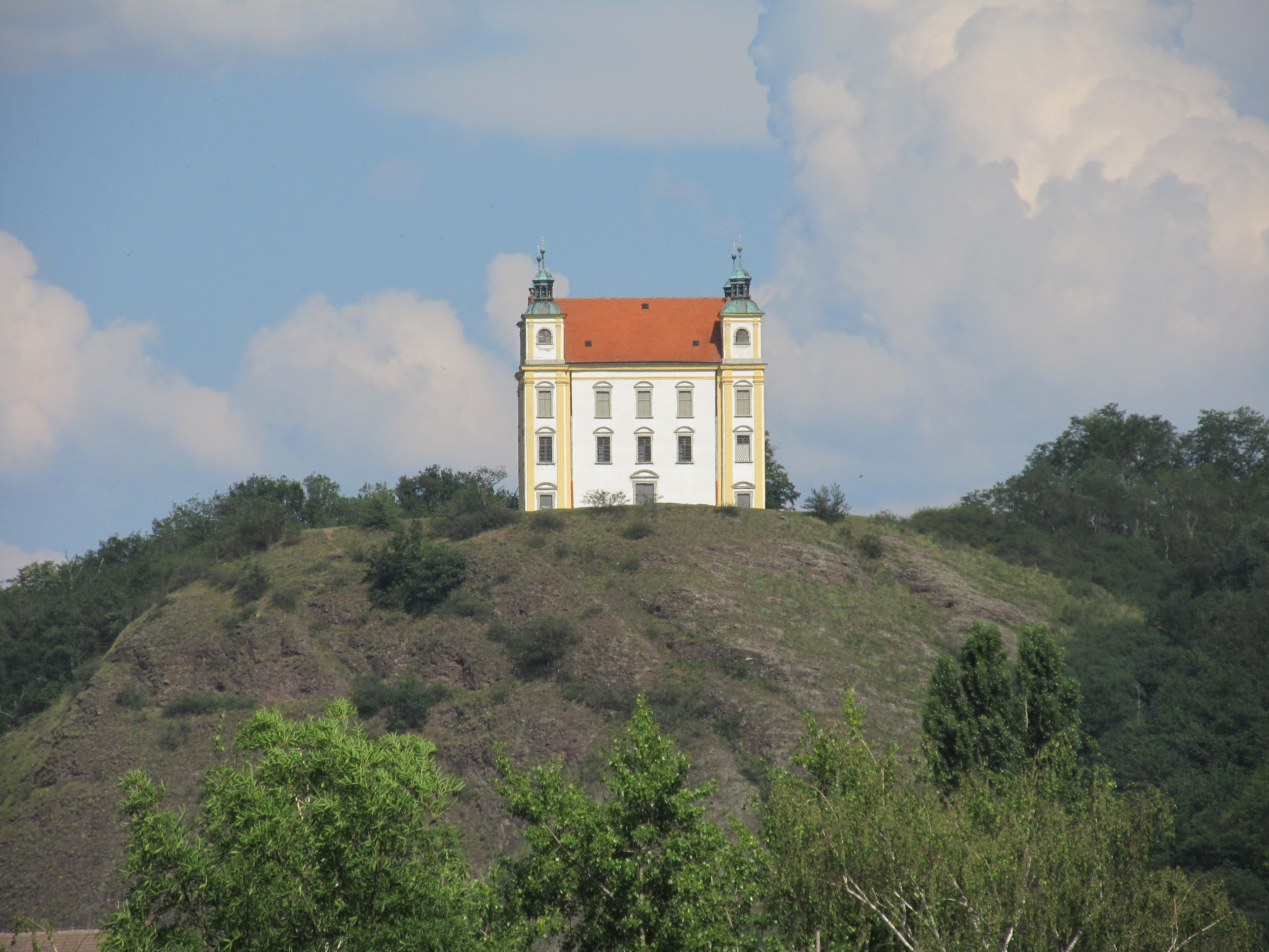 St. Florian's Chapel in Moravsky Krumlov from distance